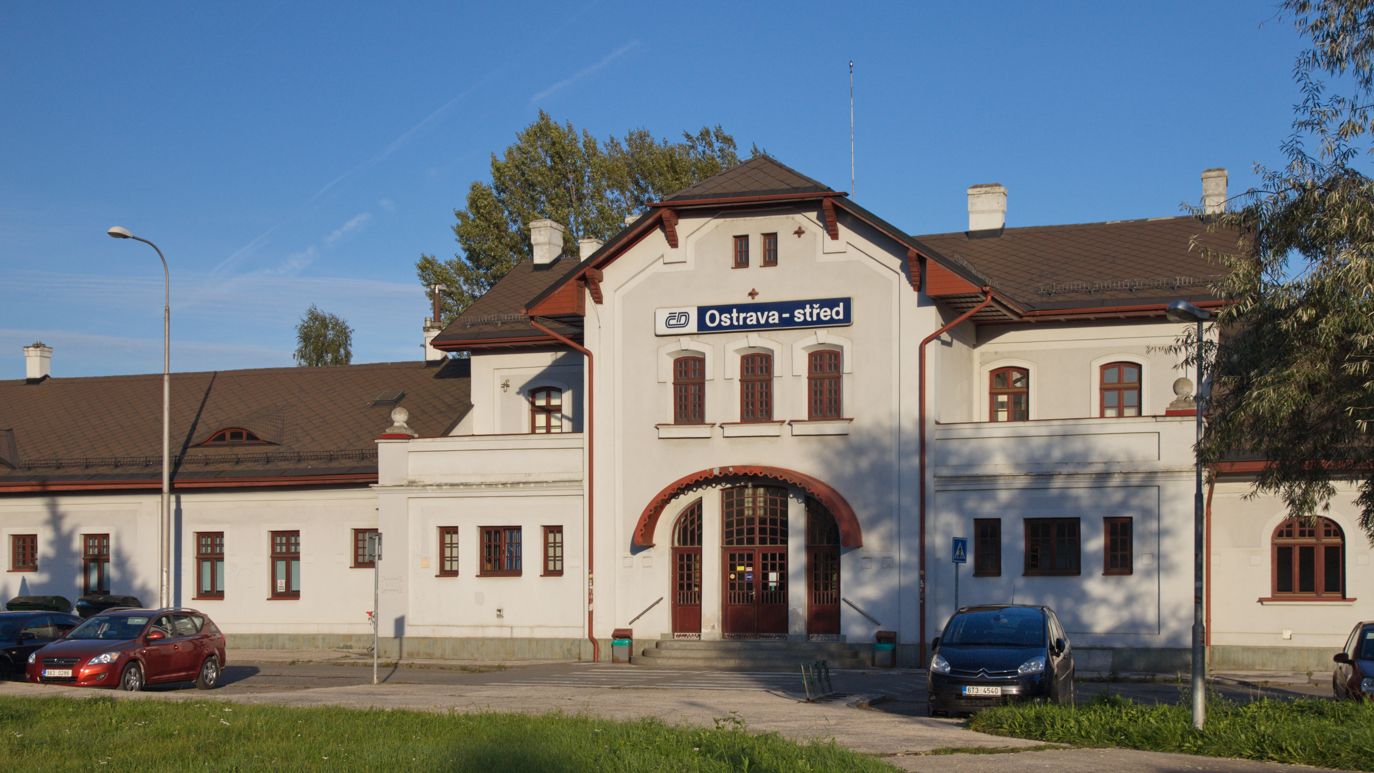 Ostrava-střed railway station, Moravská Ostrava, 5 Frýdlantská street, Ostrava. Moravian-Silesian Region, Czech Republic.